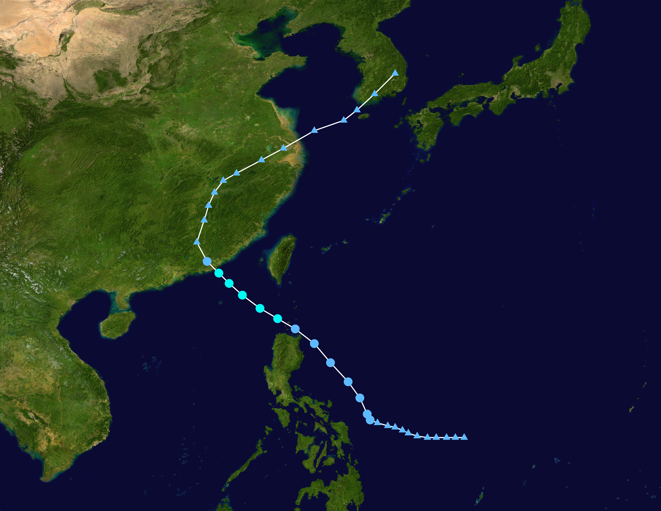 Track map of Tropical Storm Wendy of the 1999 Pacific typhoon season. The points show the location of the storm at 6-hour intervals. The colour represents the storm's maximum sustained wind speeds as classified in the Saffir–Simpson scale (see below), and the shape of the data points represent the nature of the storm, according to the legend below. Saffir–Simpson scale Tropical depression≤38 mph≤62 km/h Category 3111–129 mph178–208 km/h Tropical storm39–73 mph63–118 km/h Category 4130–156 mph209–251 km/h Category 174–95 mph119–153 km/h Category 5≥157 mph≥252 km/h Category 296–110 mph154–177 km/h Unknown Storm typeTropical cycloneSubtropical cycloneExtratropical cyclone / Remnant low / Tropical disturbance